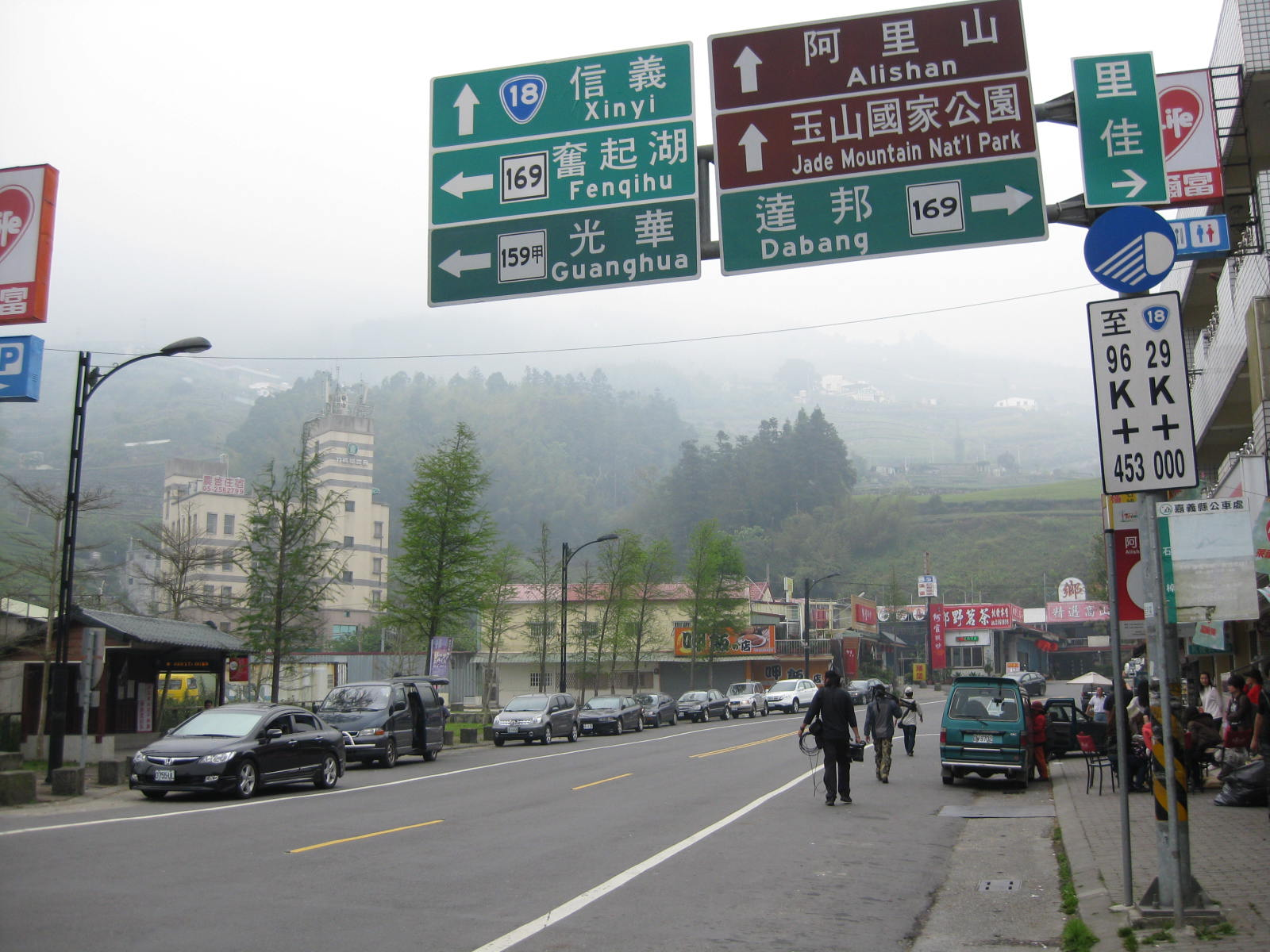 Intersection of the three roads at Shihjhuo.